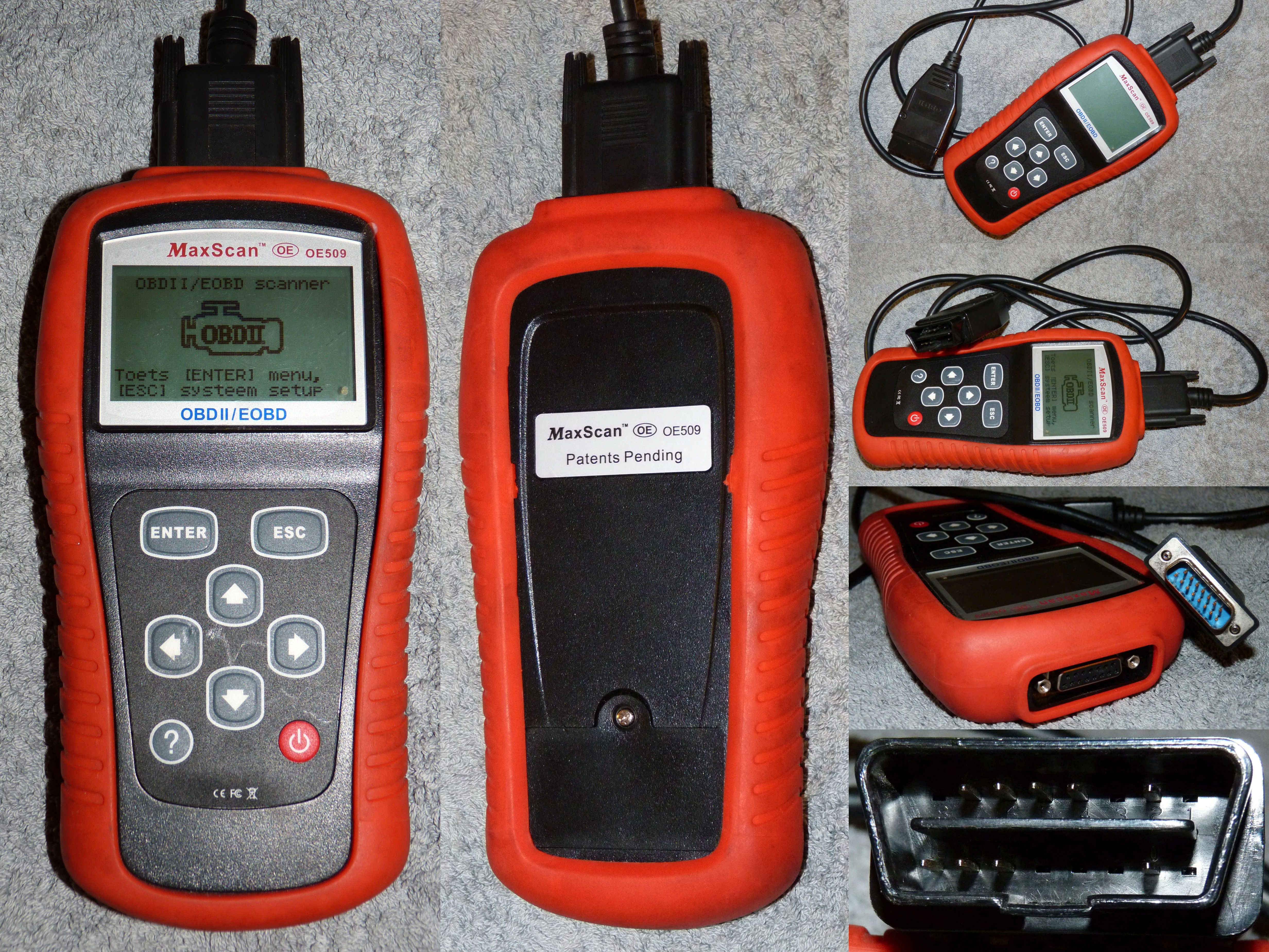 Various angles and details of a (used!) "MaxScan OE509" - a fairly typical OBD2/EOBD hand scanner from the first decade of the 21st century. Used to connect to the SAE J1962 Data Link Connector (DLC) found in many cars of the era.